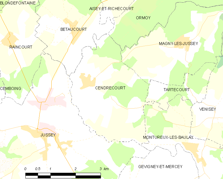 Map of French municipality